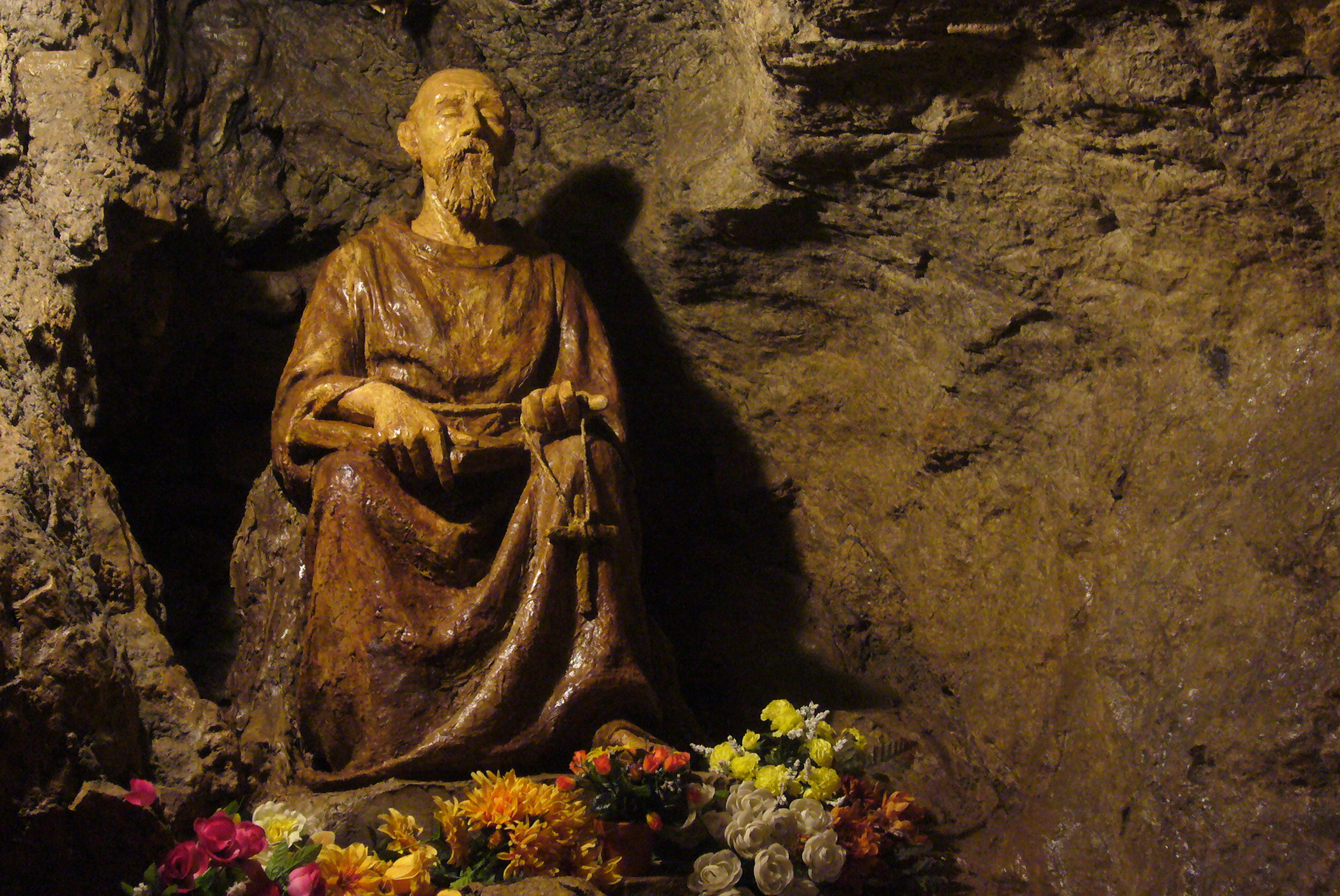 Ruin of abbey Velká Skalka, statue of St. Svorad Andreas(Skalka u Trenčína, Slovakia)